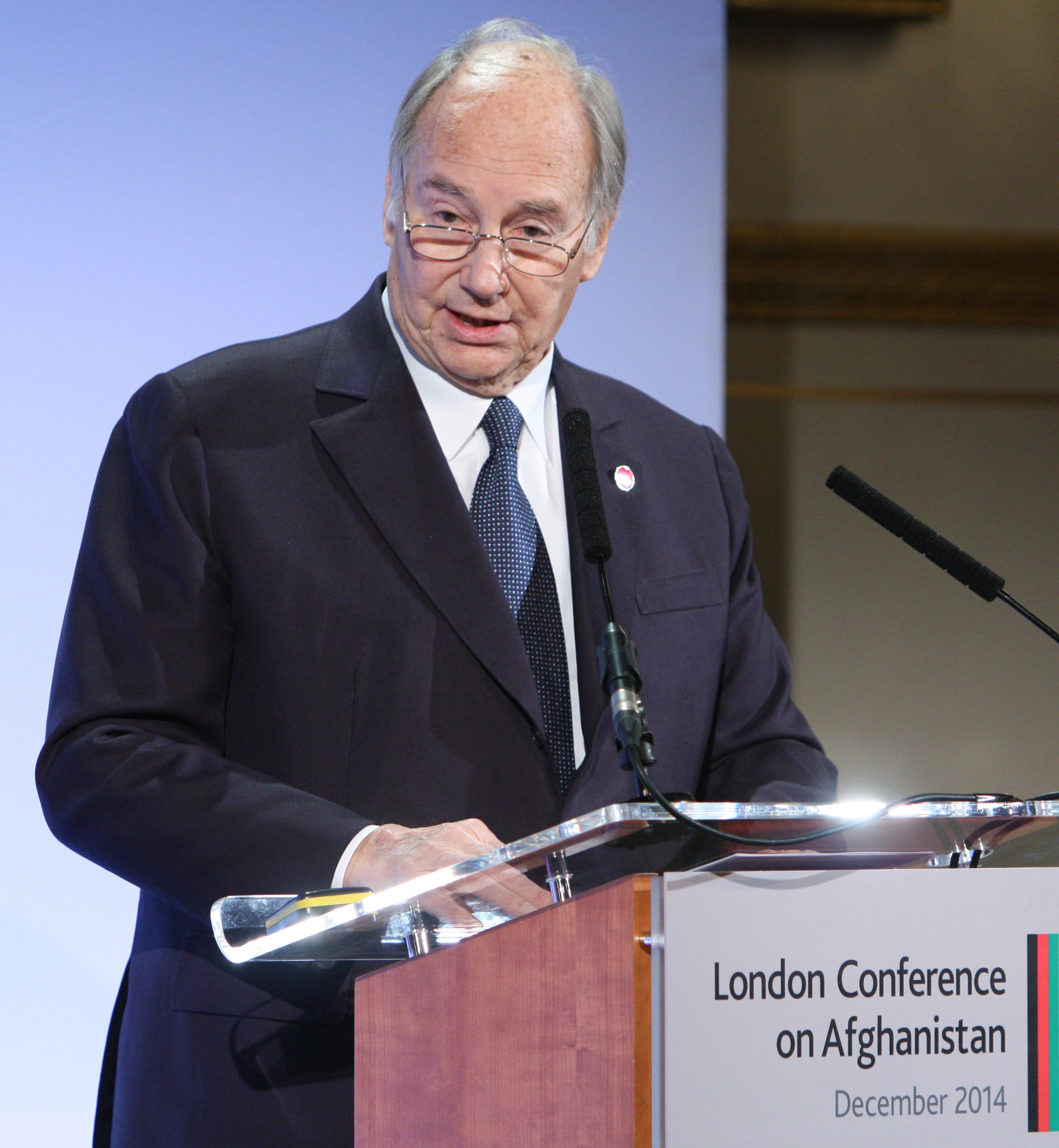 The London Conference on Afghanistan takes place on 4 December 2014, co-hosted by the governments of the UK and Afghanistan. The Conference brings together the Afghan government and international community in support of a secure and peaceful future for Afghanistan. Find out more at: Picture: Patrick Tsui/FCO Free-to-use photo This image is posted under a Creative Commons - Attribution Licence, in accordance with the Open Government Licence. You are free to embed, download or otherwise re-use it, as long as you credit the source as ‘Patrick Tsui/FCO’.